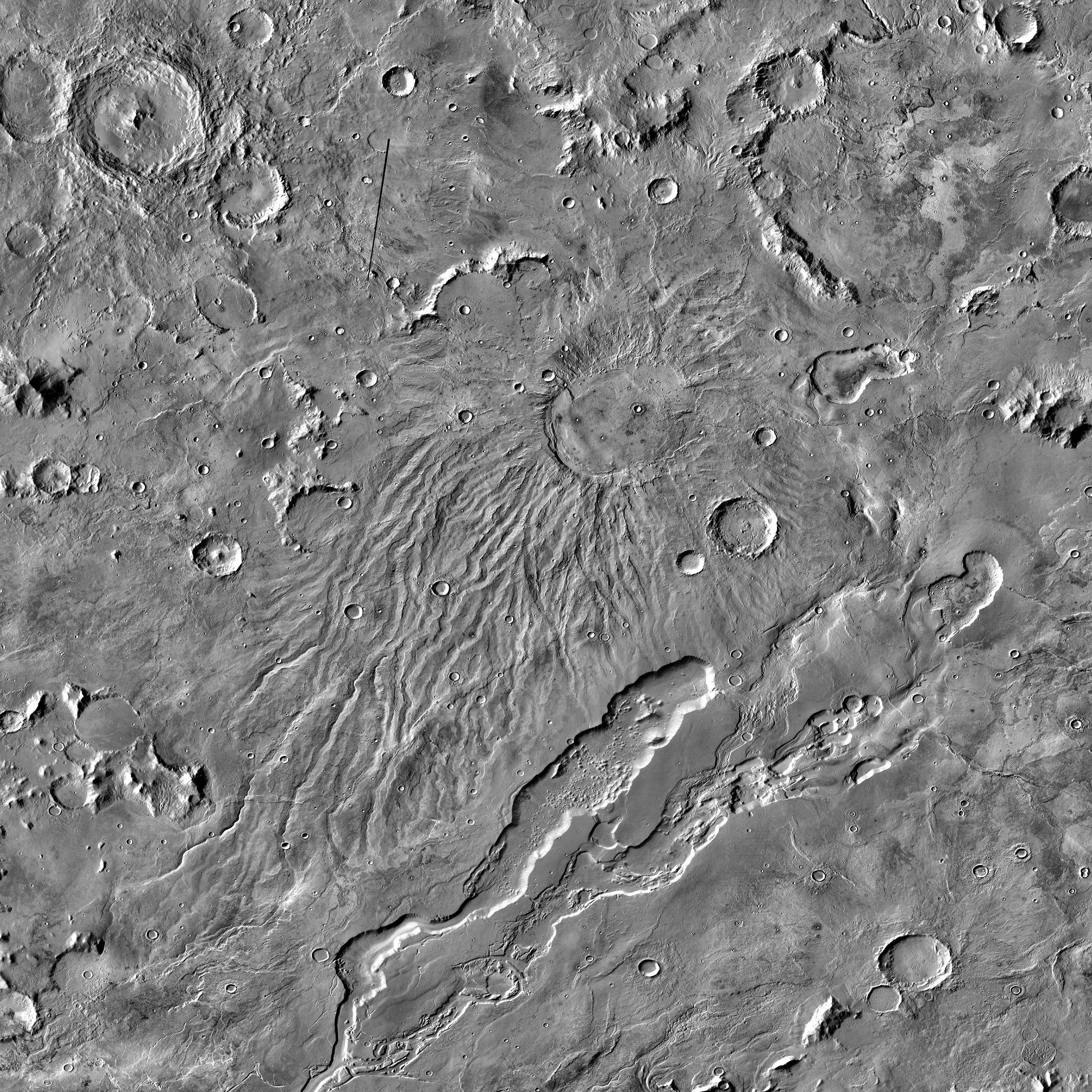 Hadriacus Mons lies on the northeast edge of the Hellas impact basin. It numbers among a handful of similar low volcanic structures (originally called paterae, after the Latin word for dish) in the cratered highlands next to Hellas. The others are Tyrrhenus (also on the northeast) and Amphitrites, Peneus, and Pityusa (all on the southwest of Hellas). Hadriacus and its neighbors also show a different volcanic style than later volcanos such as Olympus Mons and the others in Tharsis and Elysium. Hadriacus's low slopes, wide structure, and heavily scored flanks suggest that it is made of easily eroded materials. Scientists call such volcanic debris "pyroclastic," from the Greek meaning fire-broken. The image is a mosaic of infrared frames taken during daytime by the Thermal Emission Imaging System (THEMIS) on NASA's Mars Odyssey orbiter. Circling Mars every two hours, THEMIS scans the surface in five visible and 10 infrared bands. The smallest details it can record at infrared wavelengths are 100 meters (330 feet) wide; at visible wavelengths, THEMIS has imaged selected regions at 18-meter (59 feet) resolution. Some of the features in this image are annotated in Wikimedia Commons.